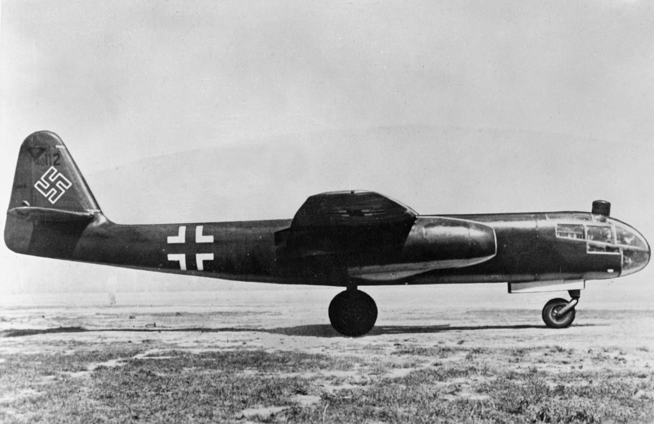 A German Arado Ar 234B-2 "Blitz" (Wk.Nr. 140112) jet bomber and reconnaissance aircraft. This aircraft first flew in July 1944 (GM+BL). It was the first production machine to be fitted with two Rb 50/30 cameras and went operational as "T9+GH" in August 1944.